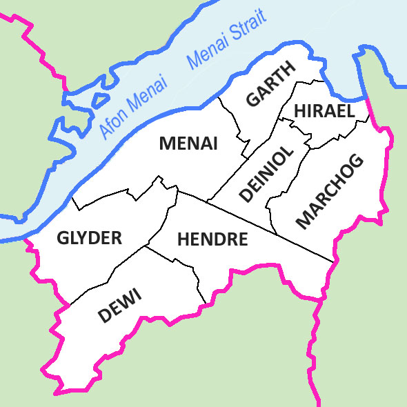 Electoral wards in the city (community) of Bangor, Gwynedd, which elect eight county councillors to Gwynedd Council and twenty city councillors to Bangor City Council